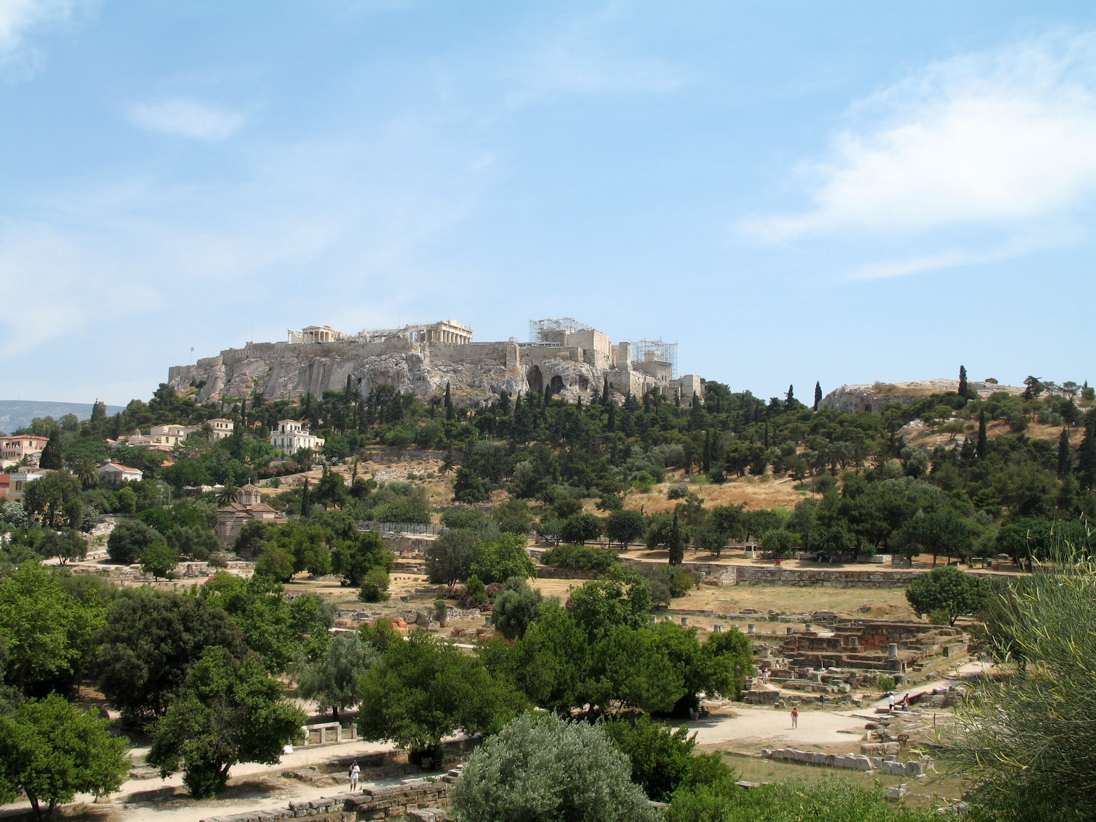 Acropolis (background) and Ancient Agora of Athens.